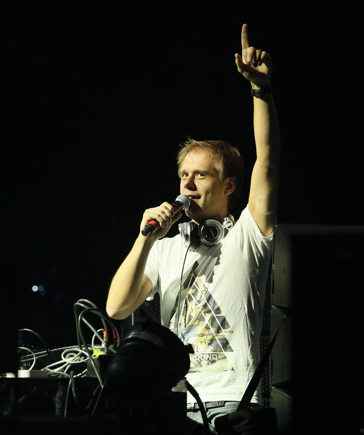 Van Buuren in December 2013